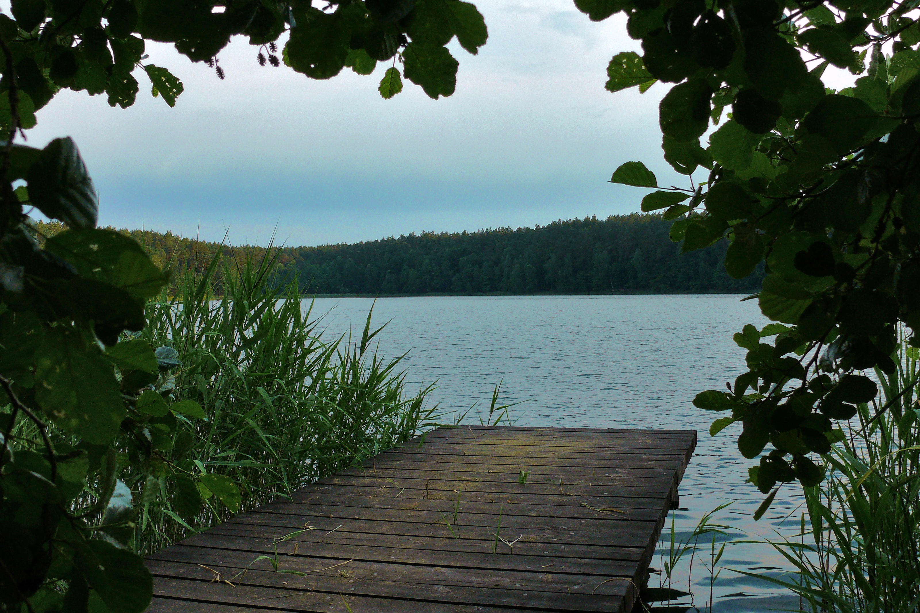 Czerne lake in Drawieński National Park